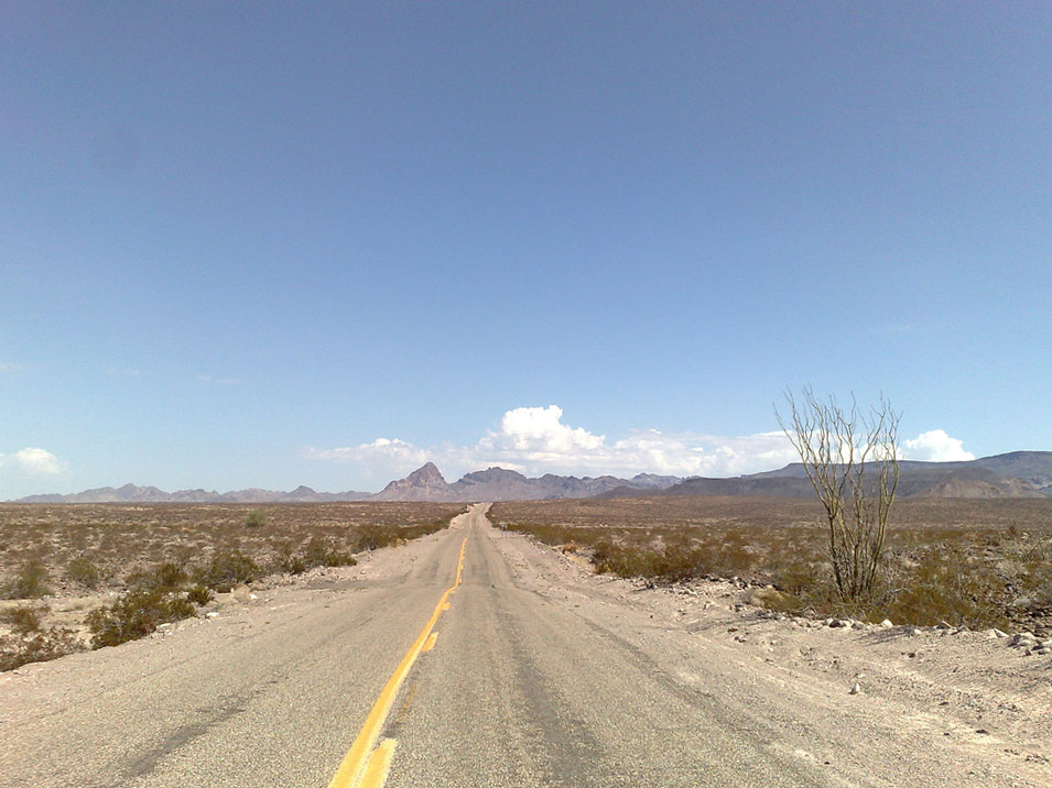 Route 66 - Road to Oatman.